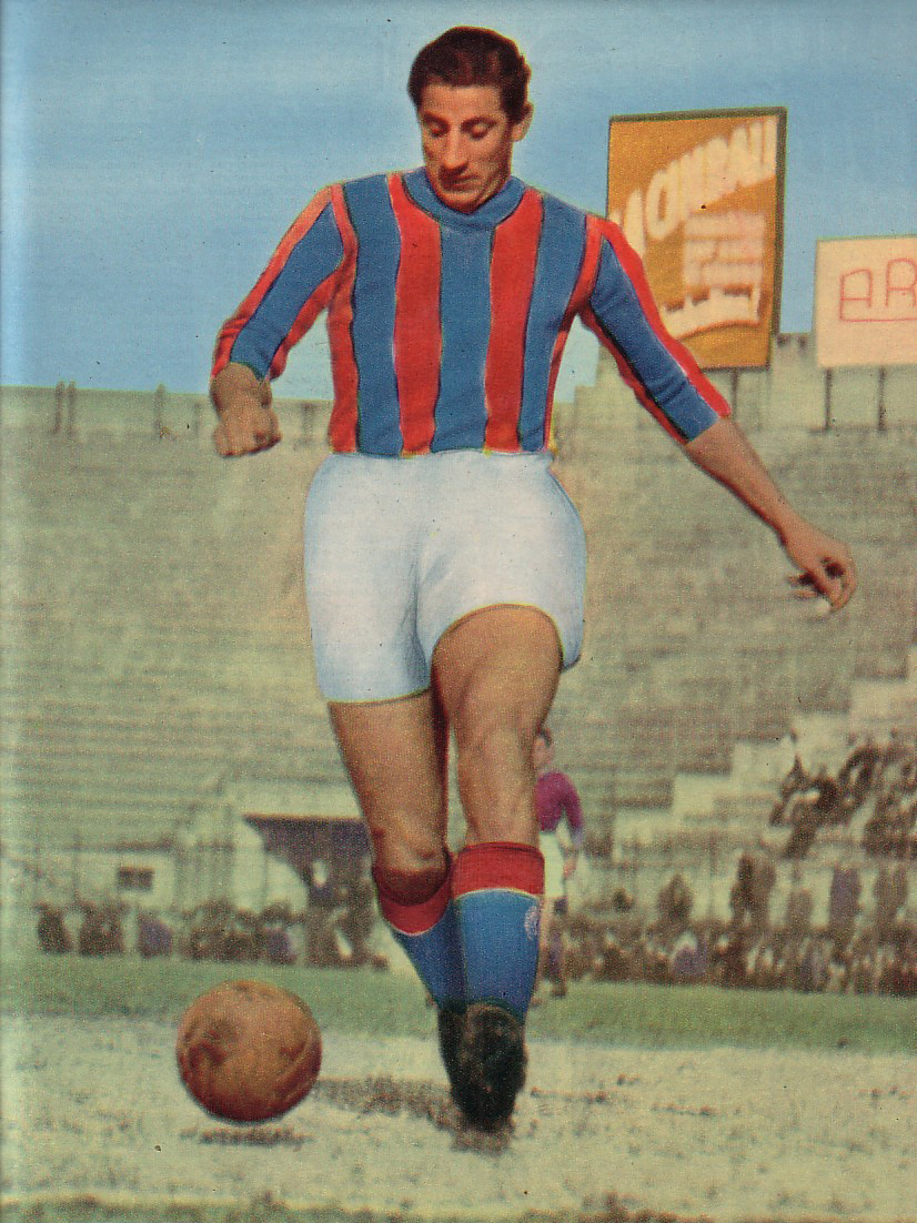 Italian footballer Gino Cappello playing for Bologna F.C., circa 1951.